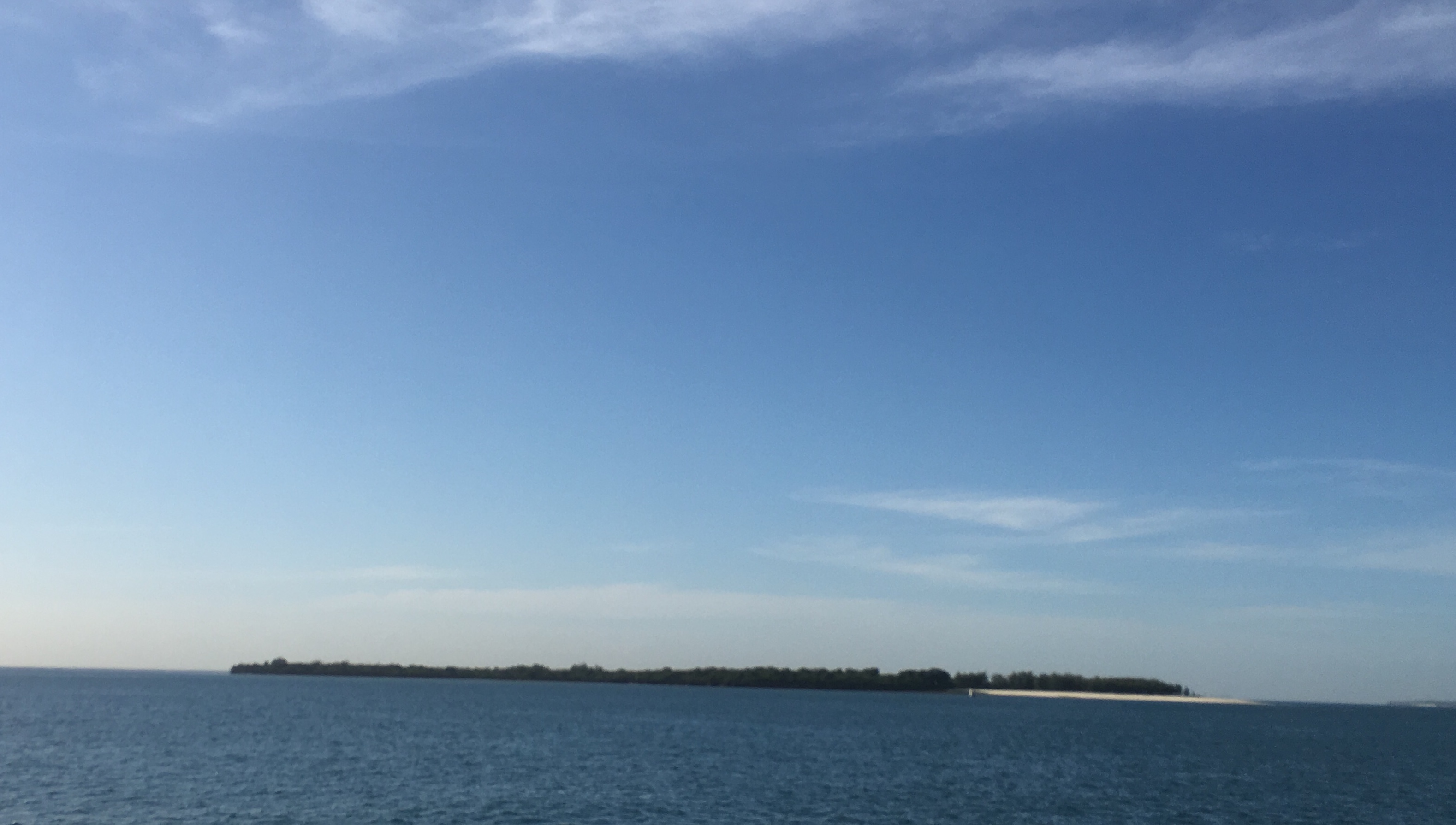 Mbudya Island